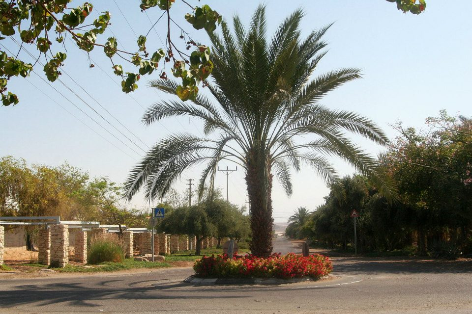 Moshav Zofar, Geography of Israel